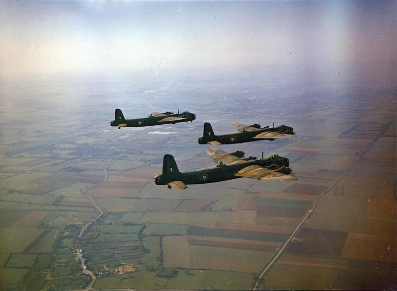 A Royal Air Force flight of No. 1651 Heavy Conversion Unit Short Stirling aircraft flying south-west, with the outskirts of Waterbeach (UK) in the foreground and Cambridge in the distance. From near to far the aircraft are: "S" N3676; "G" N6096; "C" N6069.